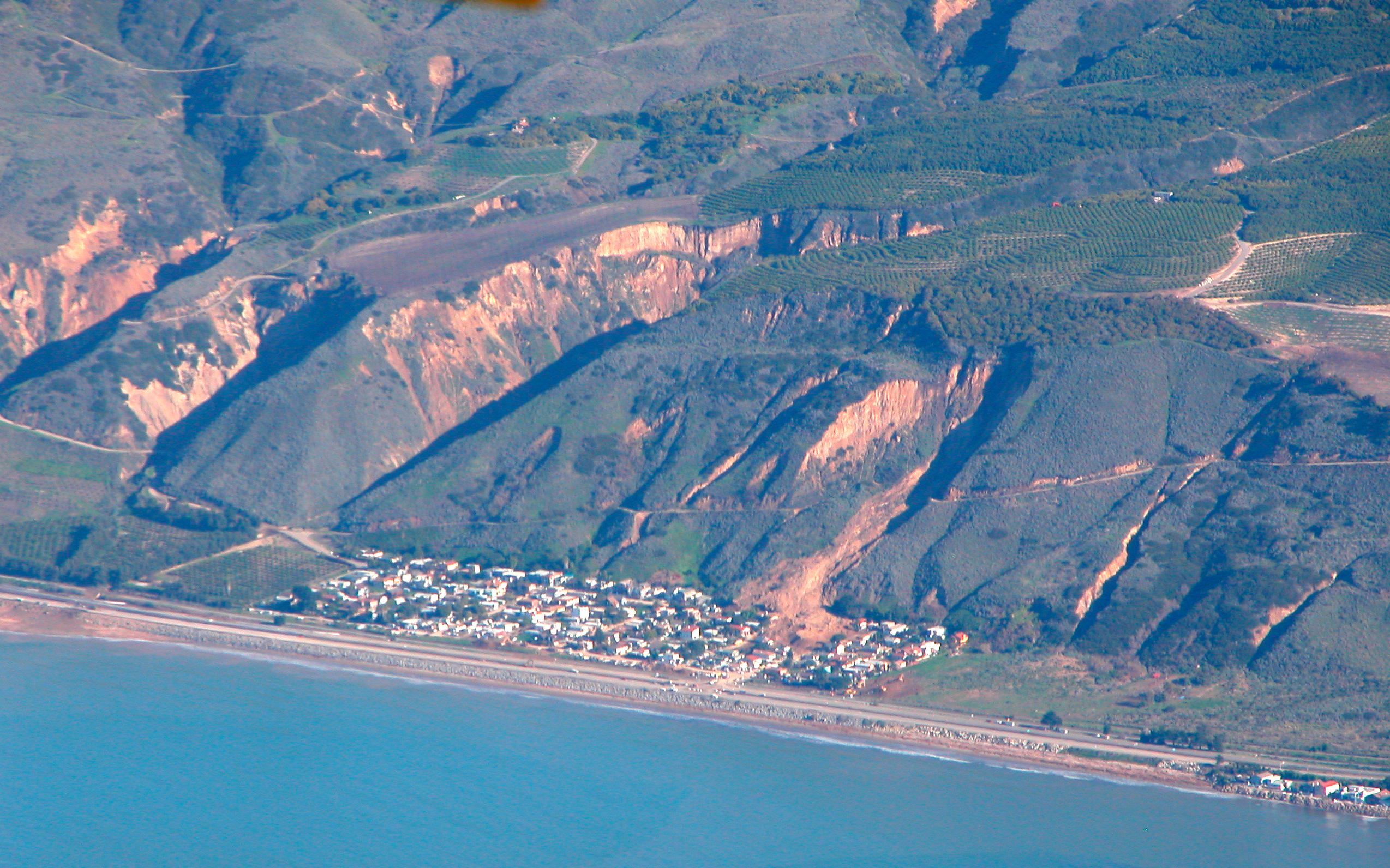 La Conchita after the mudslide, January 2005